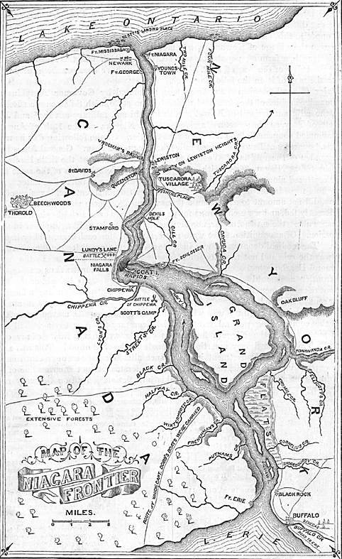 Map of the Niagara Frontier, 1869 by Benson J. Lossing, in The Pictorial Field-Book of the War of 1812, Illustration